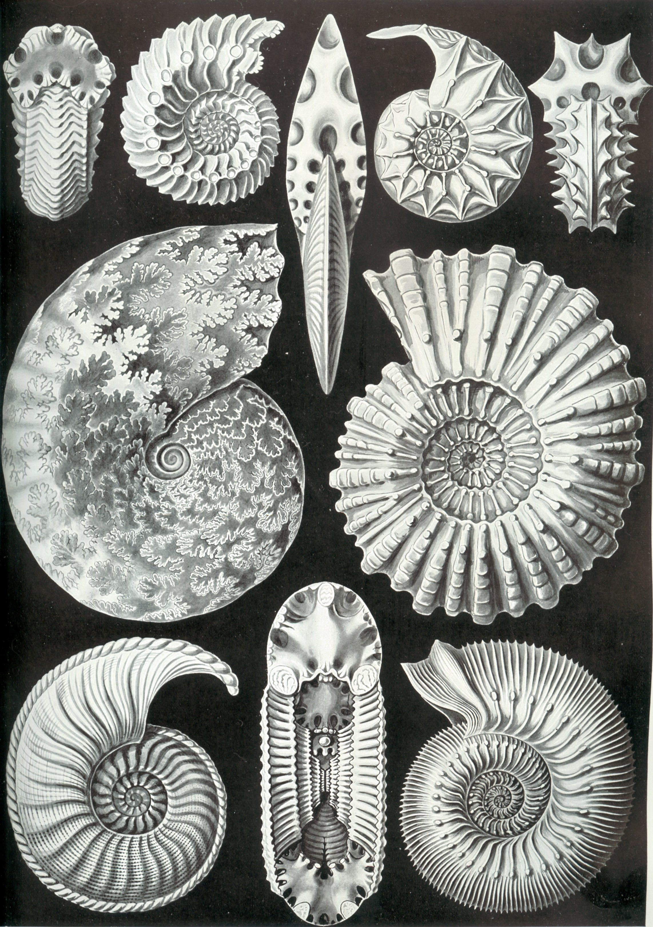 Ammonites (Cardioceras) cordatus (Quenstedt) = Cardioceras cordatum (Sowerby 1813), from the side Ammonites (Cardioceras) cordatus (Quenstedt) = Cardioceras cordatum (Sowerby 1813), from below Ammonites (Schloenbachia) Coupei (Brogniart) = Schloenbachia varians? (J.Sowerby, 1817), from the side Ammonites (Schloenbachia) Coupei (Brogniart) = Schloenbachia varians? (J.Sowerby, 1817), from below Ammonites (Ptychites) opulentus (Mojsisovich) = Ptychites opulentus Mojsisovich, 1882, from the side (outer shell layer removed) Ammonites (Ptychites) opulentus (Mojsisovich) = Ptychites opulentus Mojsisovich, 1882, from below Ammonites (ornatus) mammillaris (Schlotheim) = Douvilleiceras mammillatum (Schlotheim 1813), from the side Ammonites (planulatus) cavernosus (Quenstedt) = Puzosia planulatus (J.Sowerby,1827) cross-section Ammonites (amaltheus) rotula (Schlotheim) = Amaltheus margaritatus Montfort, 1808, from the side Ammonites (stephanoceras) Humphryi (Sowerby) = Stephanoceras humphriesianum (Sowerby, 1825), from the side